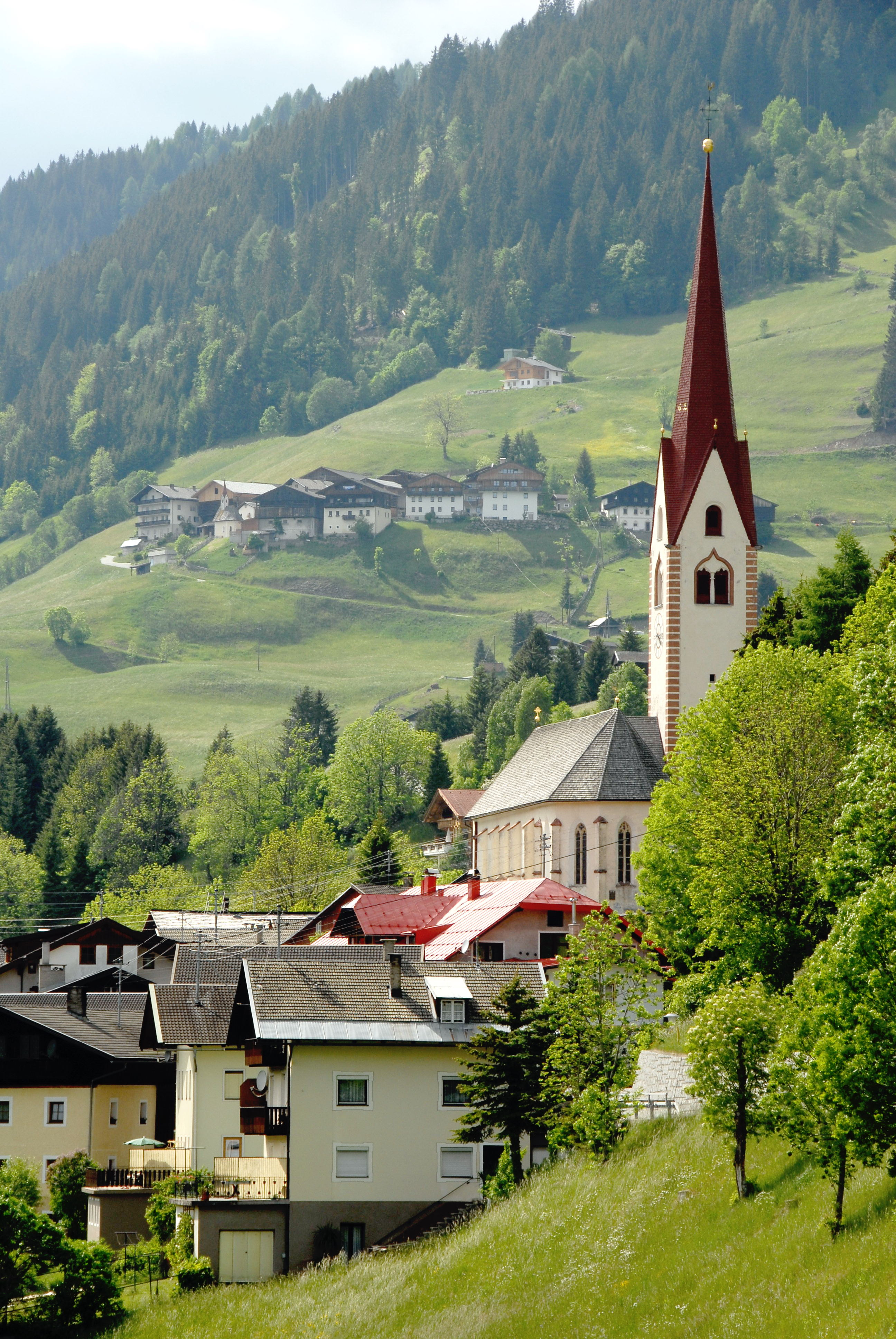 Village Saint Lorenzen, municipality Lesachtal, district Hermagor, Carinthia / Austria / EU